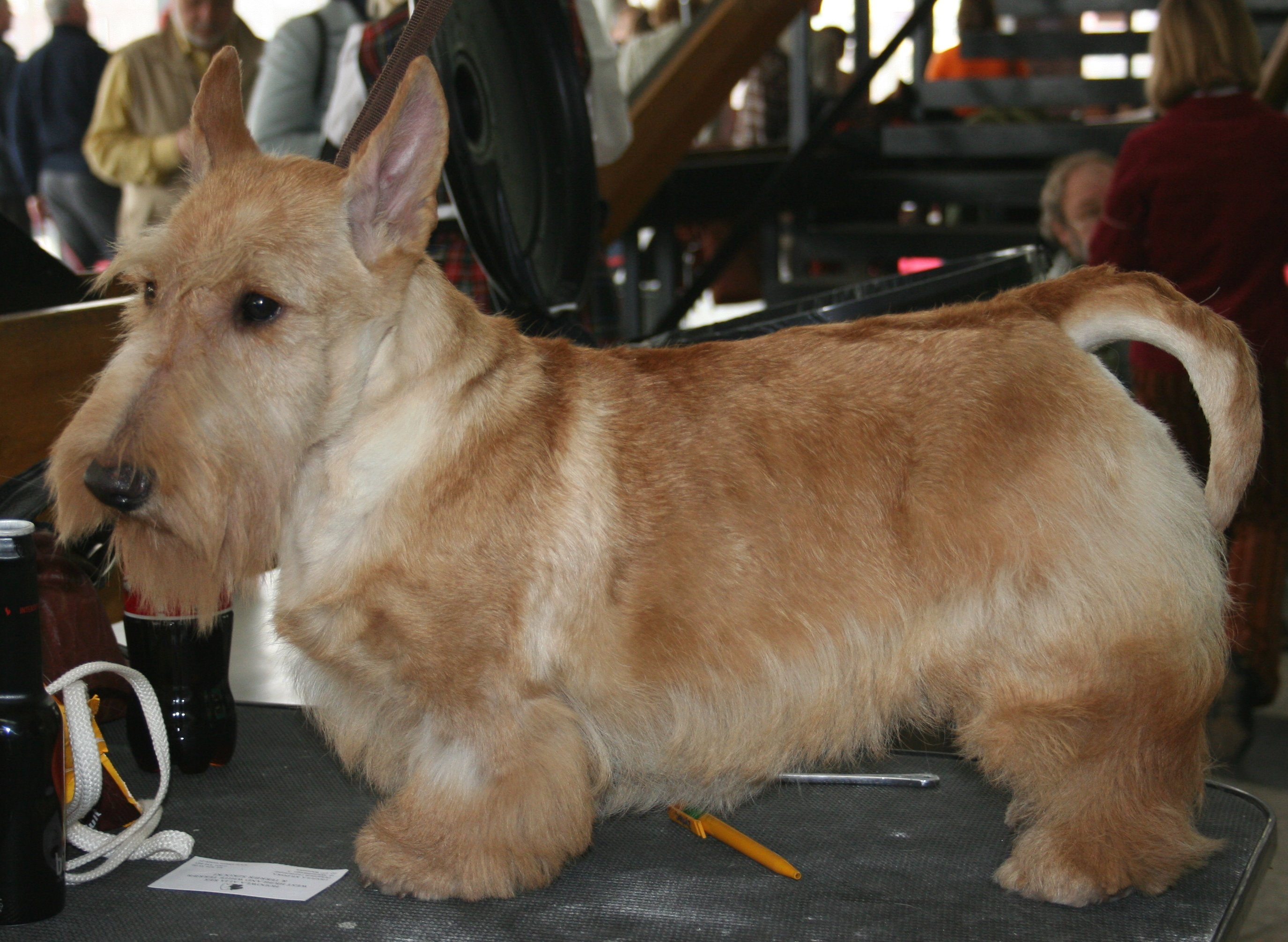 Scottish Terrier during dogs show in Katowice, Poland